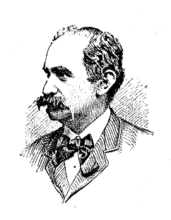 Alfred Levertin.